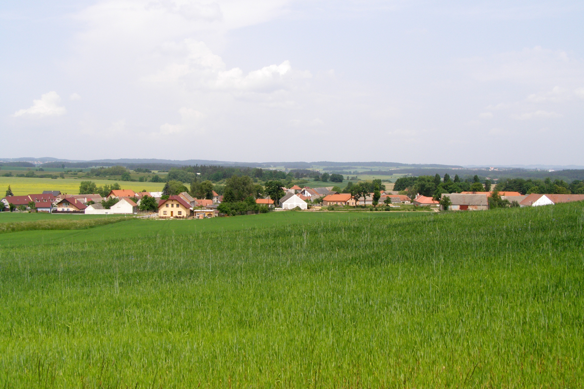 Hostákov village, part of Vladislav